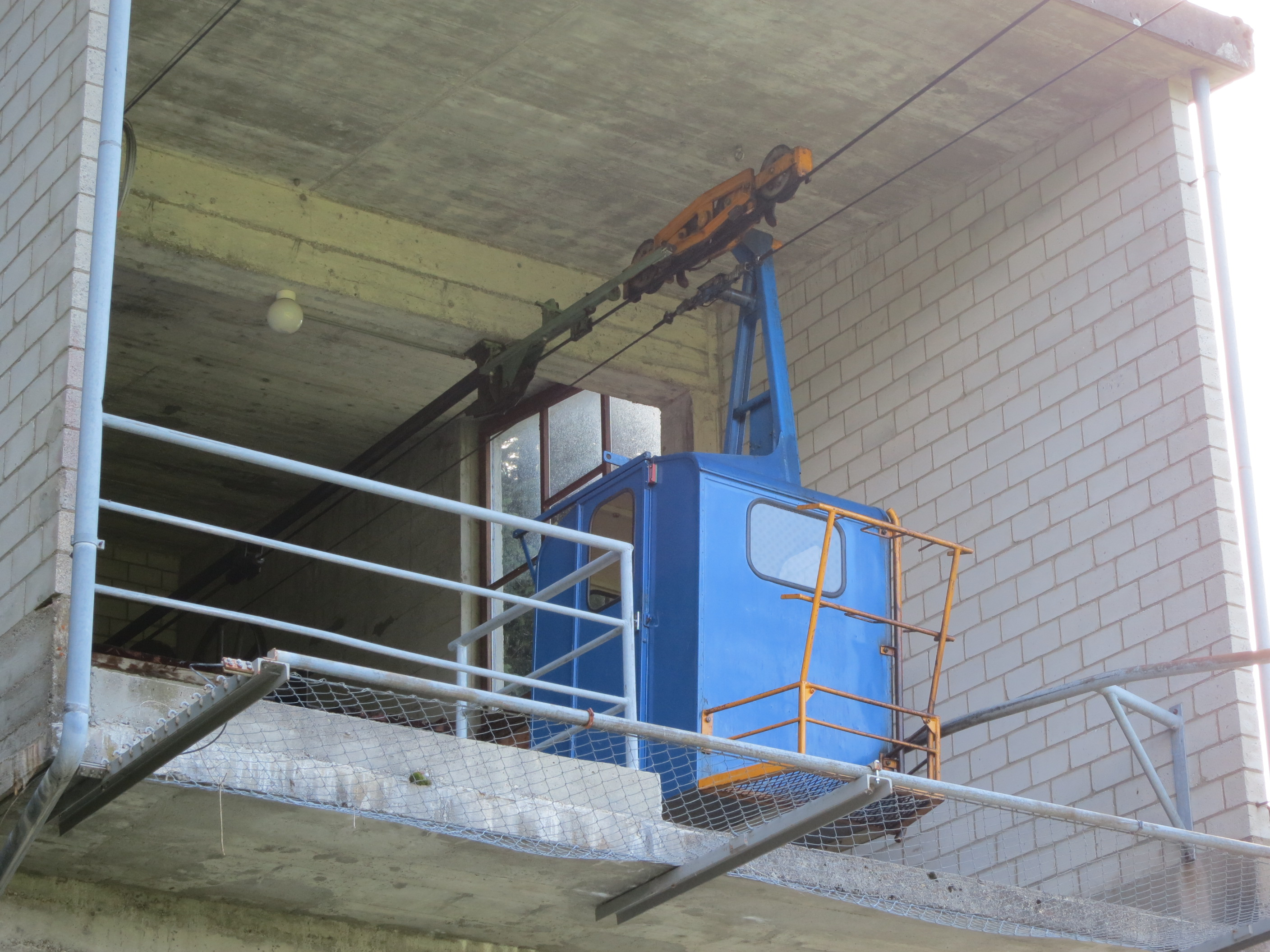 Seilbahn Schwändi - Oberlänggrat, Romoos LU, Schweiz